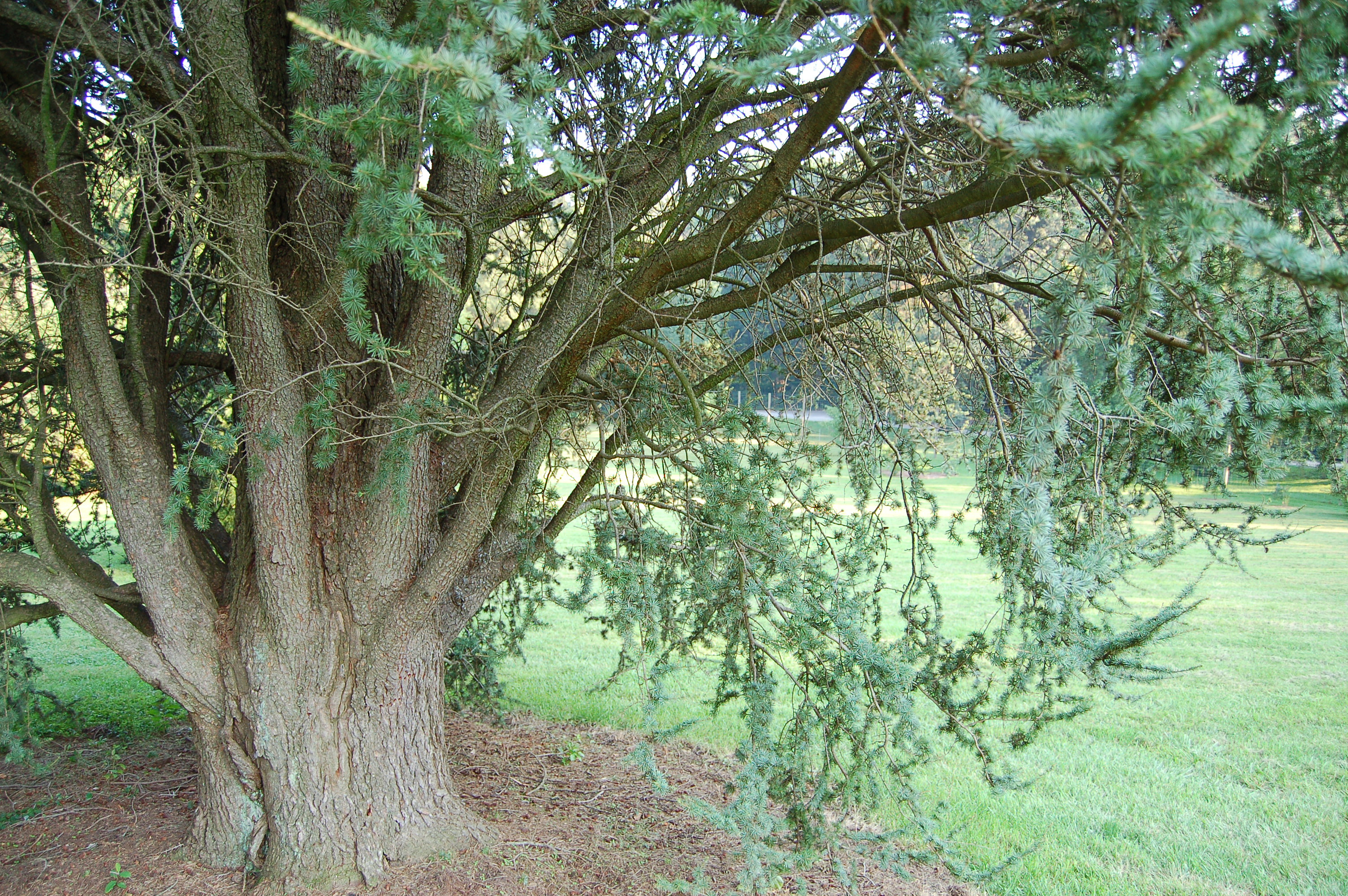 Photograph of the tree base of a Blue Atlas Cedaren — Cedrus libani var. atlantica (or Cedrus atlantica en ) 'Glauca' (cultivar). Photo taken at the Tyler Arboretum where it was identified.